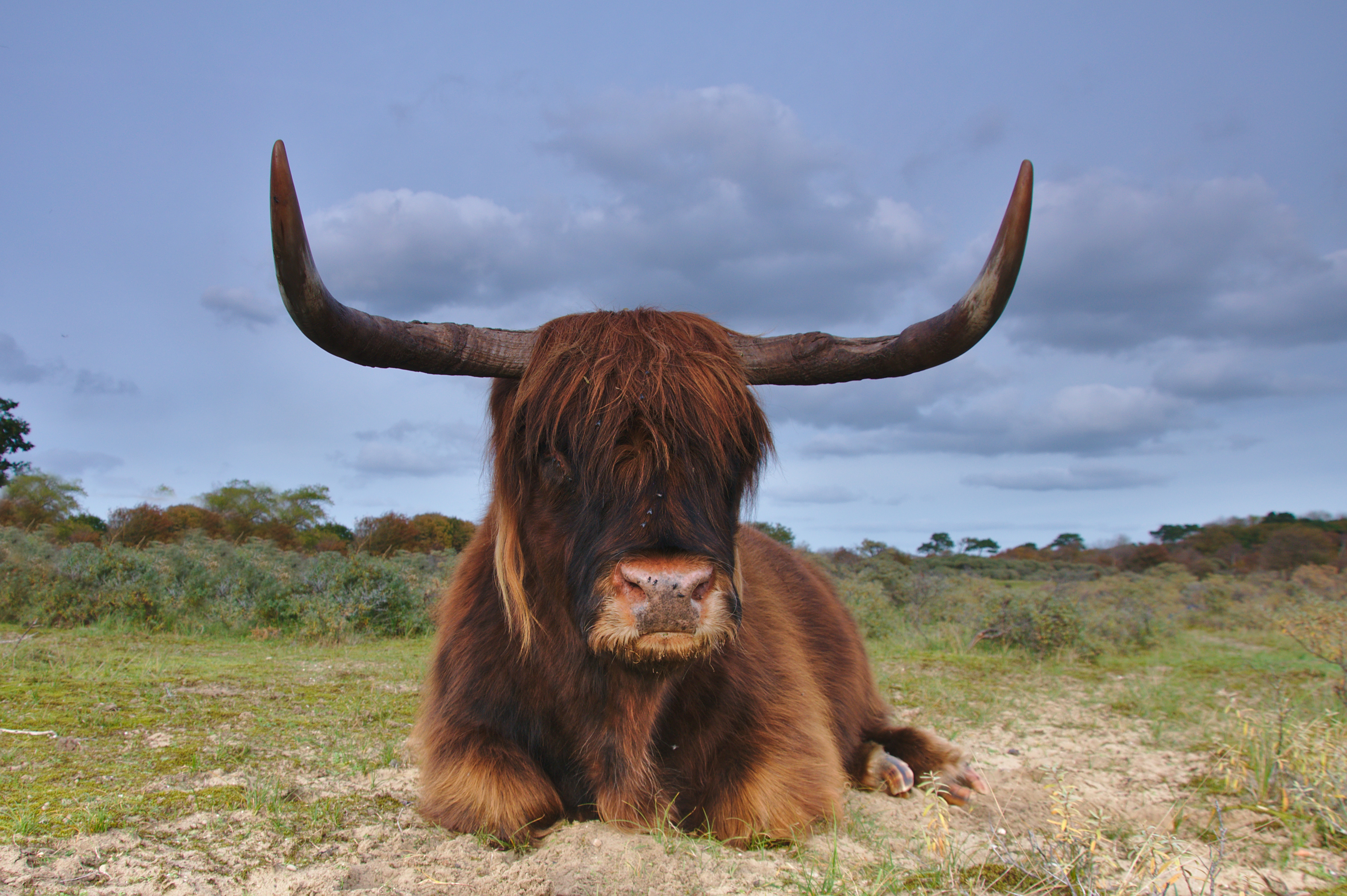 National park Zuid-Kennemerland